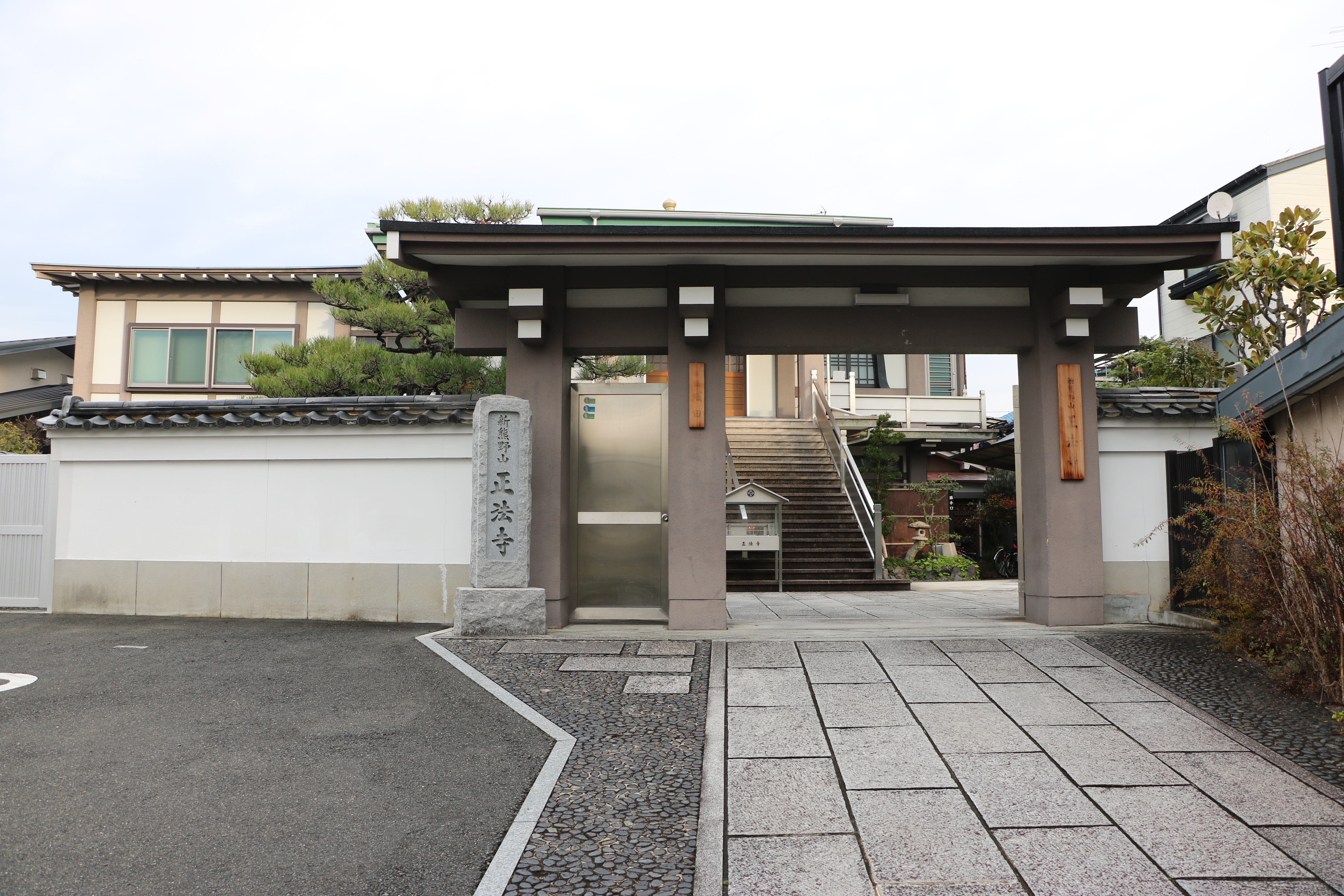 Shinkumanozan Shohoji temple gate. Higashiyama-ku, Kyoto